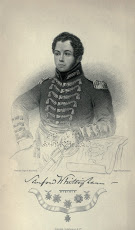 Portrait of Samuel Ford Whittingham